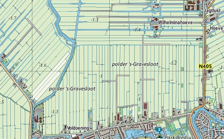 Map of polder 's Gravesloot, Woerden